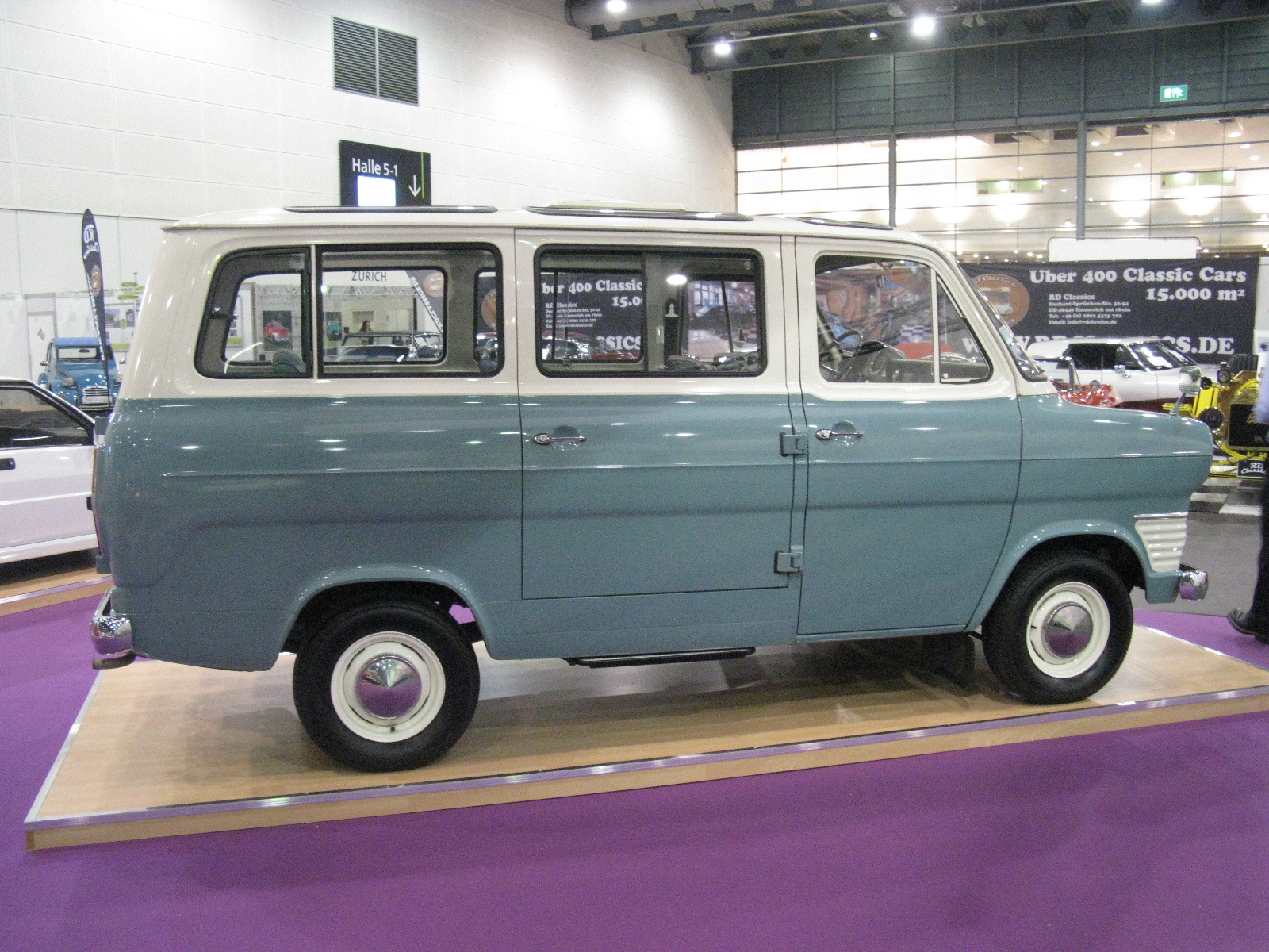 Ford Transit Panorama Bus 1969